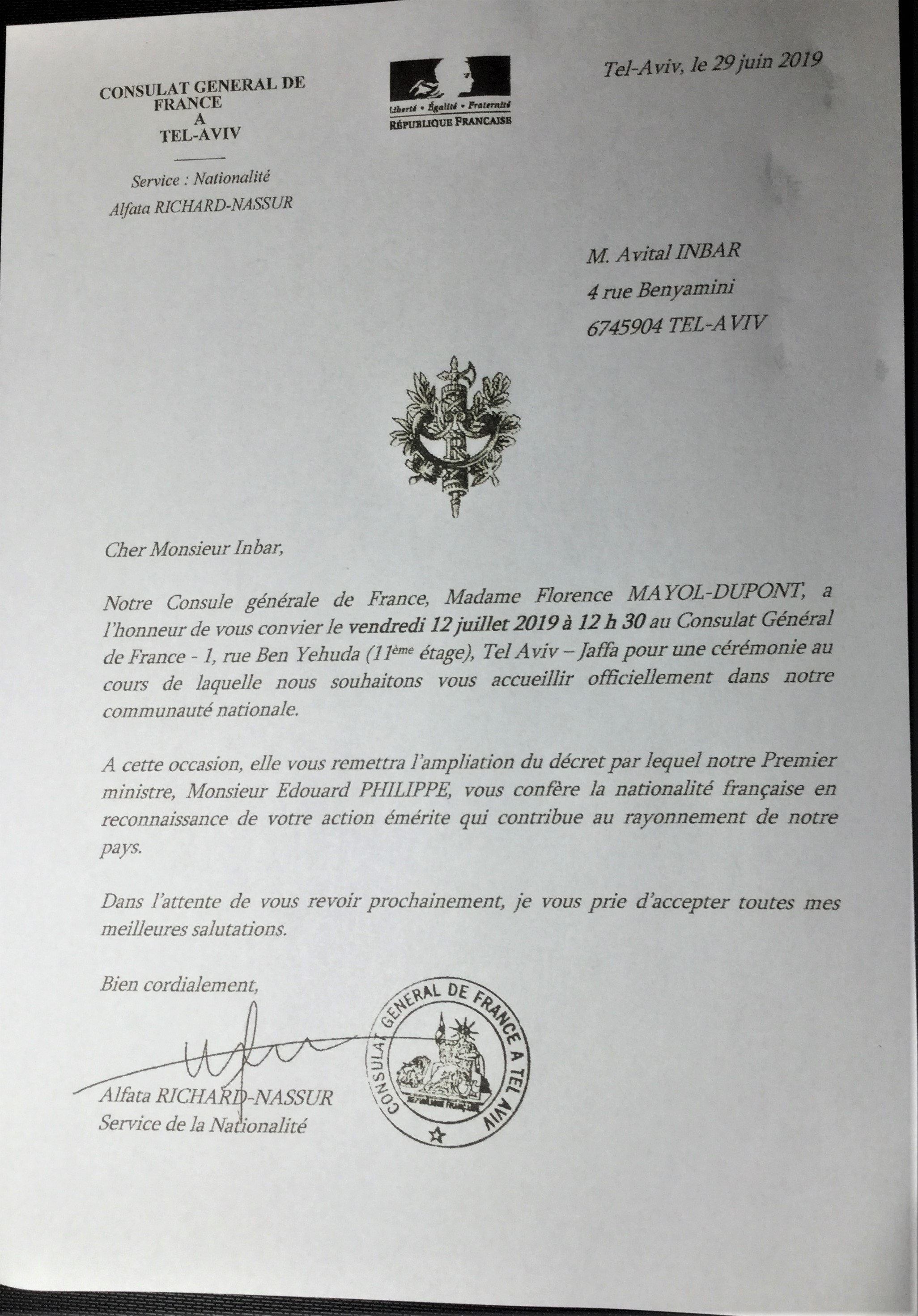 French Citizenship award 29 June, 2019